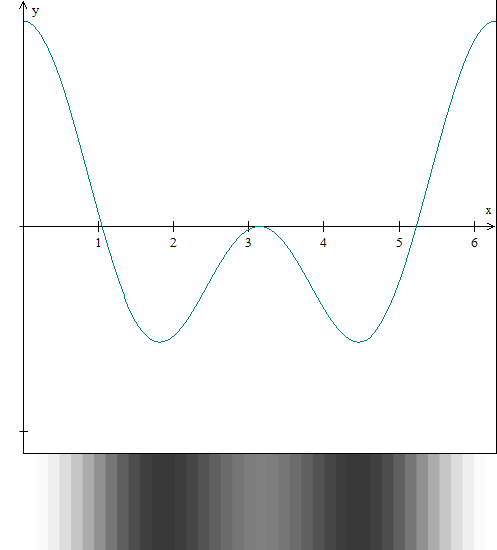 Example of a cosine function.